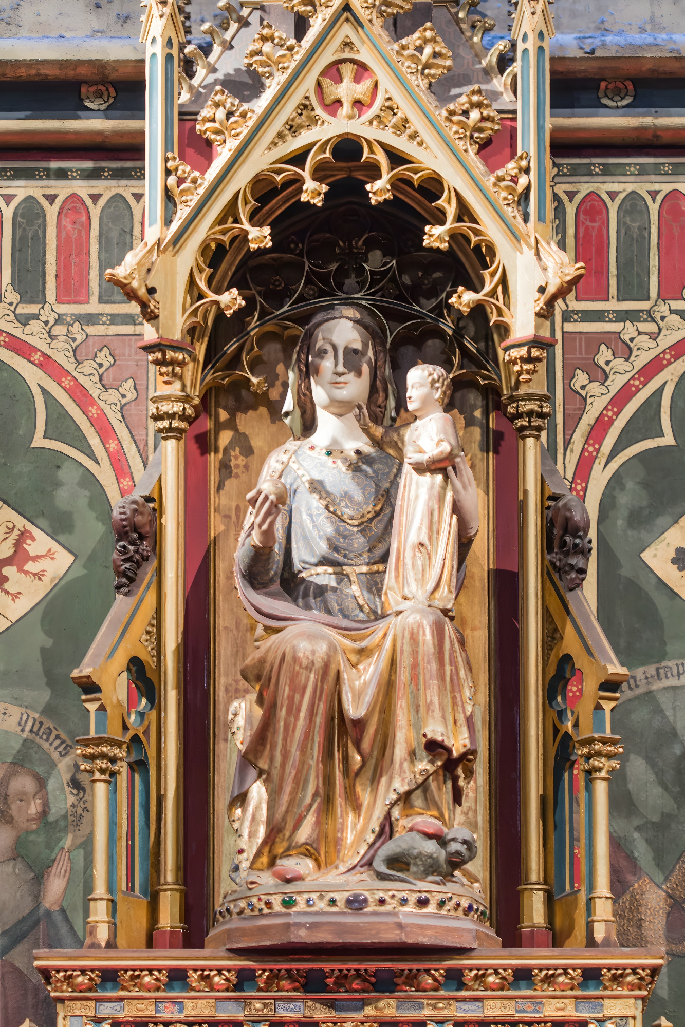 Statue of the Madonna with Child, named "Füssenicher Madonna", after the place of origin, a village west of Cologne; since end of 19. century located in the Axis Chapel (Chapel of the Three Kings) of the Cologne Cathedral